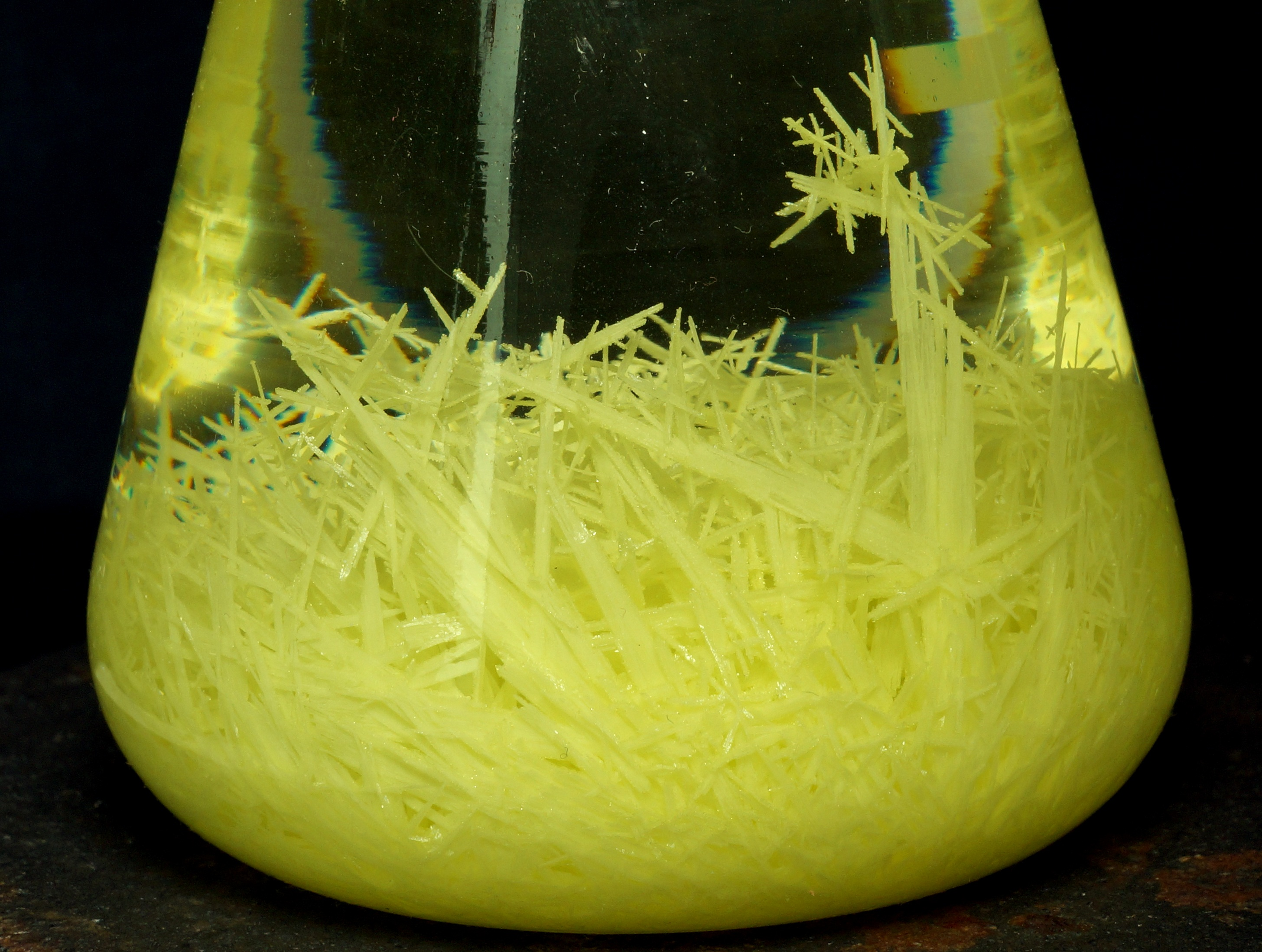 Crystals of sulfur, obtained from sulfur solution in toluene. I took about 10 grams of sulfur and 100ml of toluene. After the mixture reaches 95 degrees Celsius, all the sulfur will completely dissolve in toluene. Upon reaching 55°C, yellow needle crystals of sulfur will begin to precipitate in the flask.